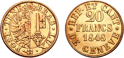 Switzerland, Geneva. (Coins of Switzerland AV 20 Francs (7.62 g, 6h). Dated 1848. (rosette)•POST•TENE-(radiant IHS)-BRAS•LUX•, dimidiated crowned eagle left and key right `REP• ET CANT/DE GENEVE`, 20/FRANCS/1848 in three lines across field. Corragioni Tafel XLVIII, 1; Friedberg 263; KM 140.